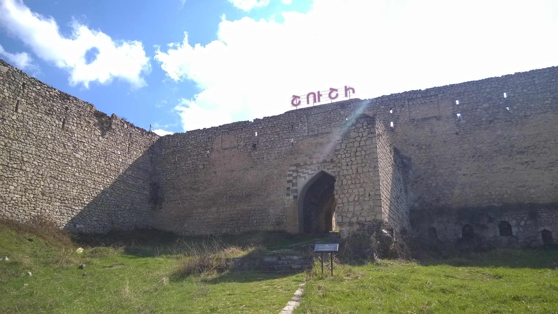 Shushi fortress, Republic of Artsakh